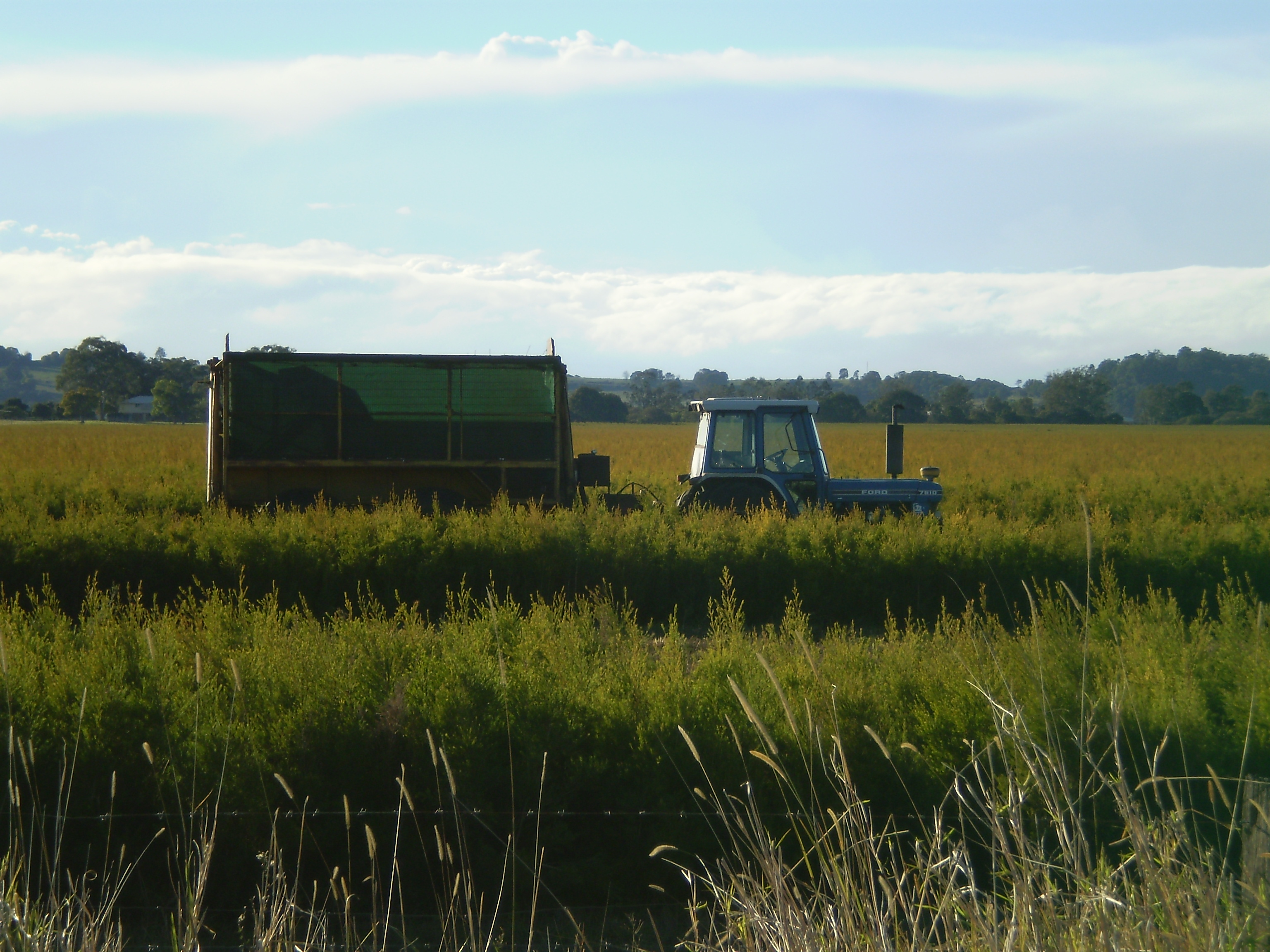 Tea tree oil plantation, harvesting equipment (a Ford tractor pulling a trailer), Coraki, New South Wales, Australia.